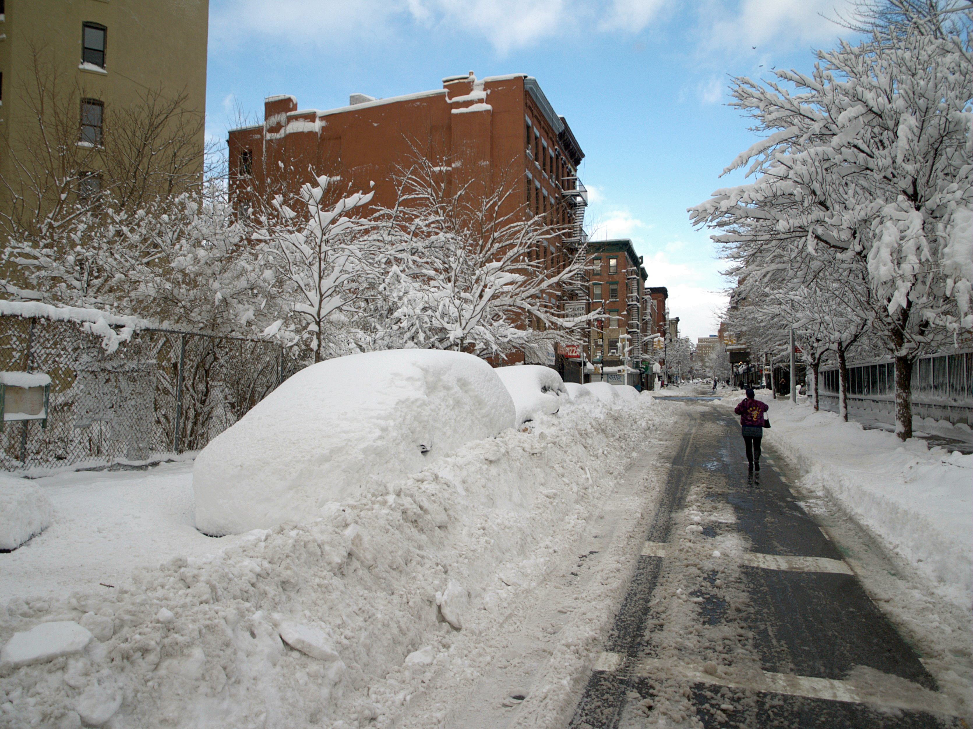 The Lower East Side of New York after the January 25th blizzard in the Northeast